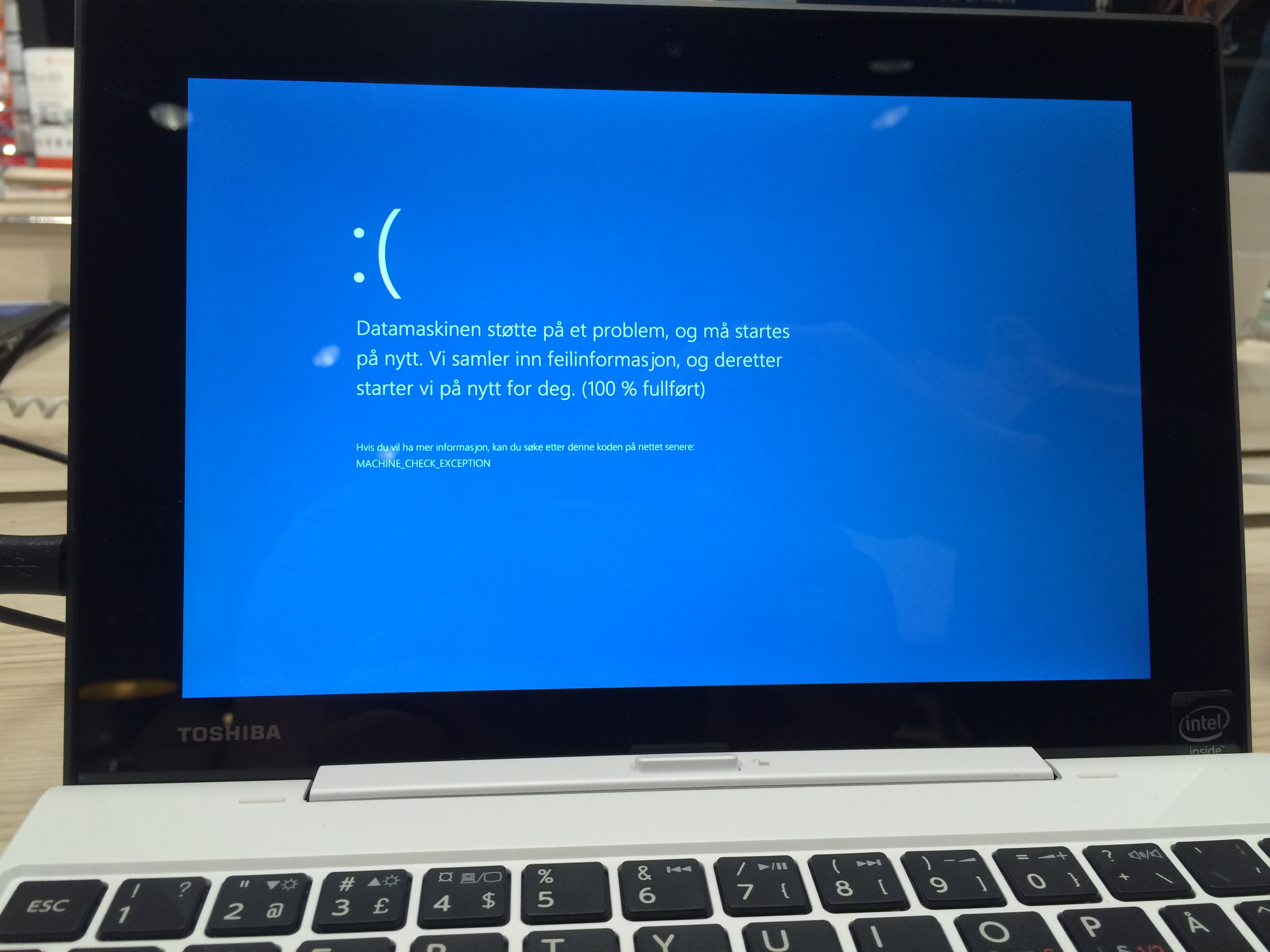 A blue screen on a Toshiba Satellite Click M with a Norwegian version of Windows 10.